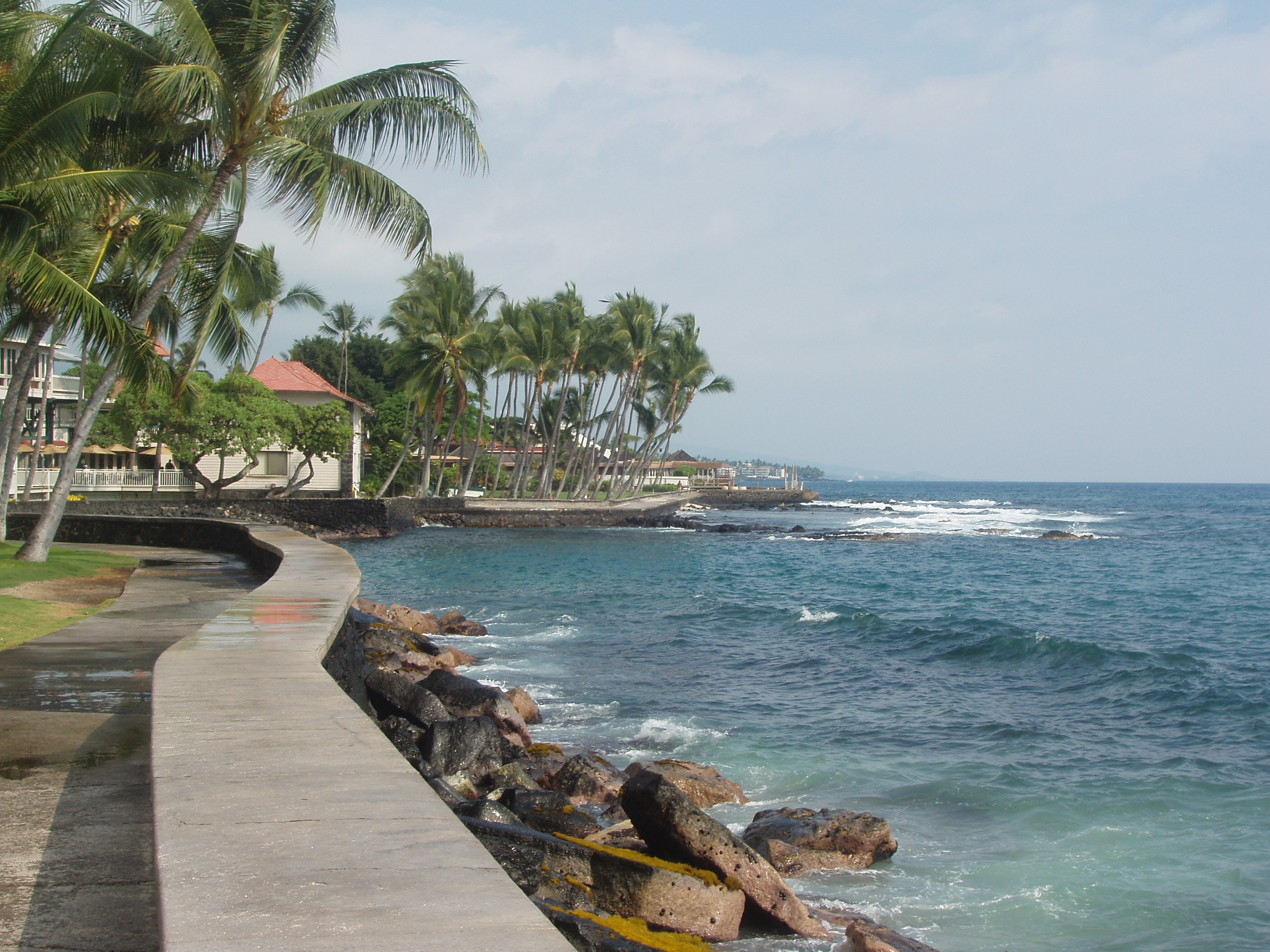 Oceanfront south of Huliheʻe Palace